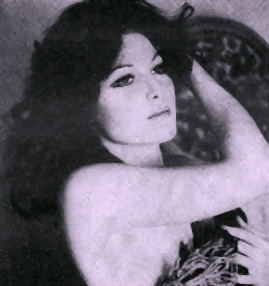 photo from newspaper La Stampa (1974)